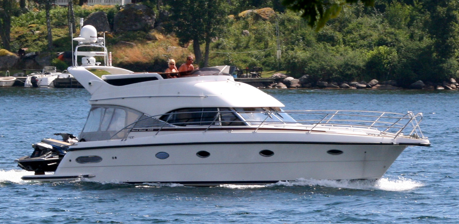 A Nord West 420 Flybridge yacht.